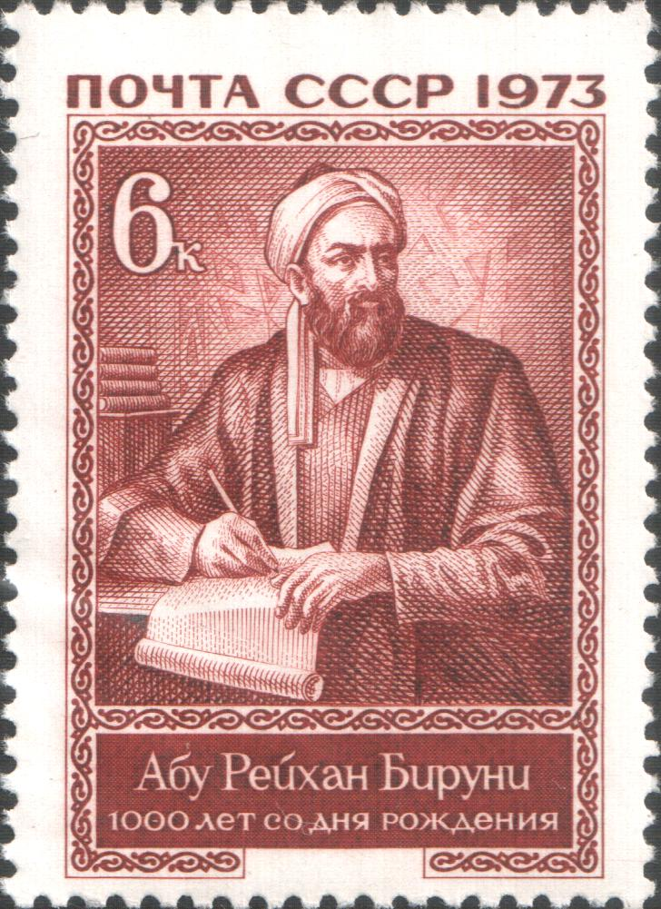 USSR stamp, Abū Rayhān al-Bīrūnī, 6 copecks, 1973.